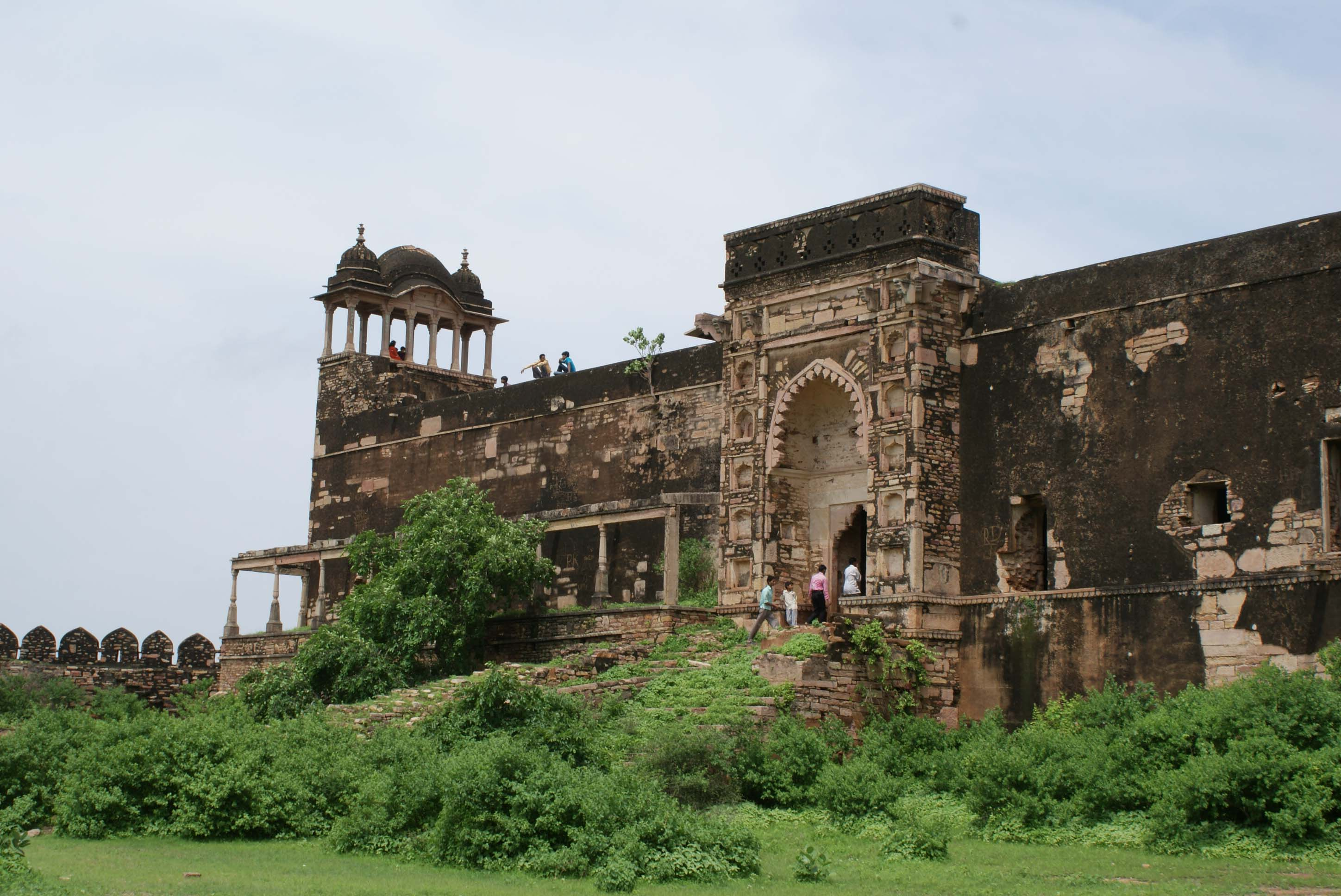 Vikram Palace in Gwalior Fort